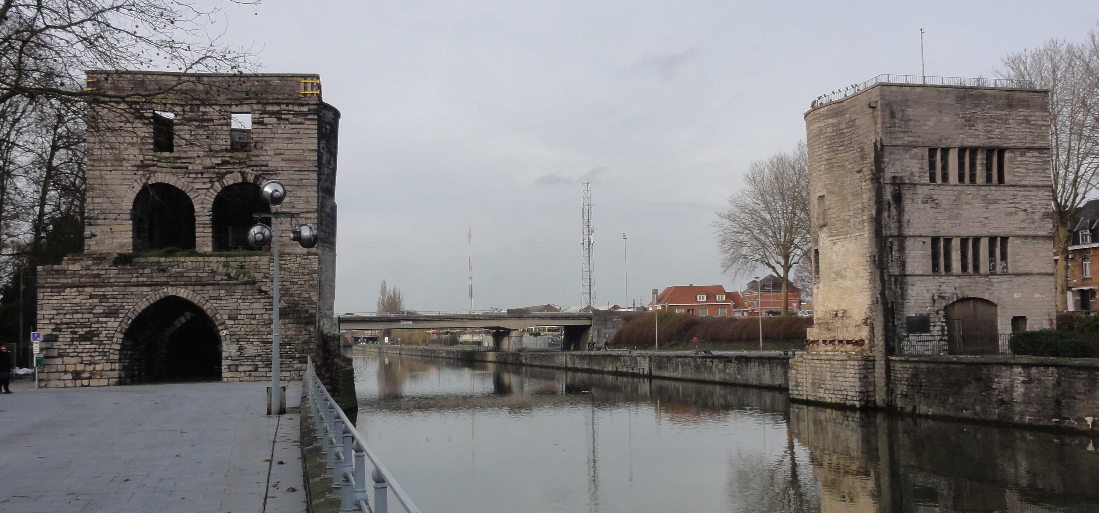 Depicted place: Bridge of holes